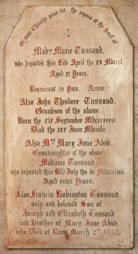 St Mary, Cadogan Street, London SW3 - Wall monument of Marie Tussaud